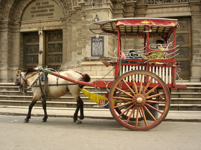 Kalesa, Calesa (in front of Manila Cathedral) Manila